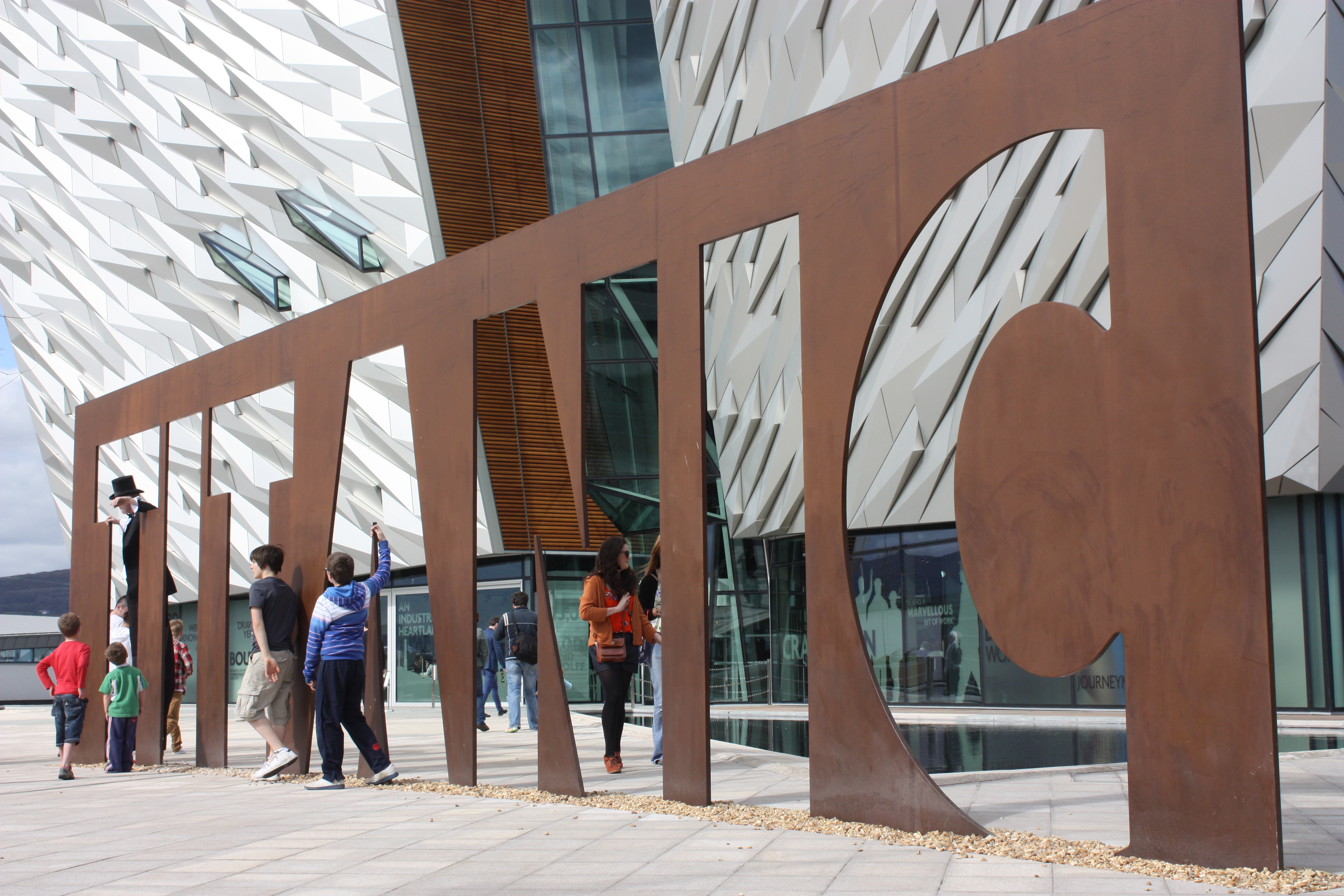 Opening Day at Titanic Belfast, Titanic Quarter, Queen's Road, Belfast, Northern Ireland, 31 March 2012